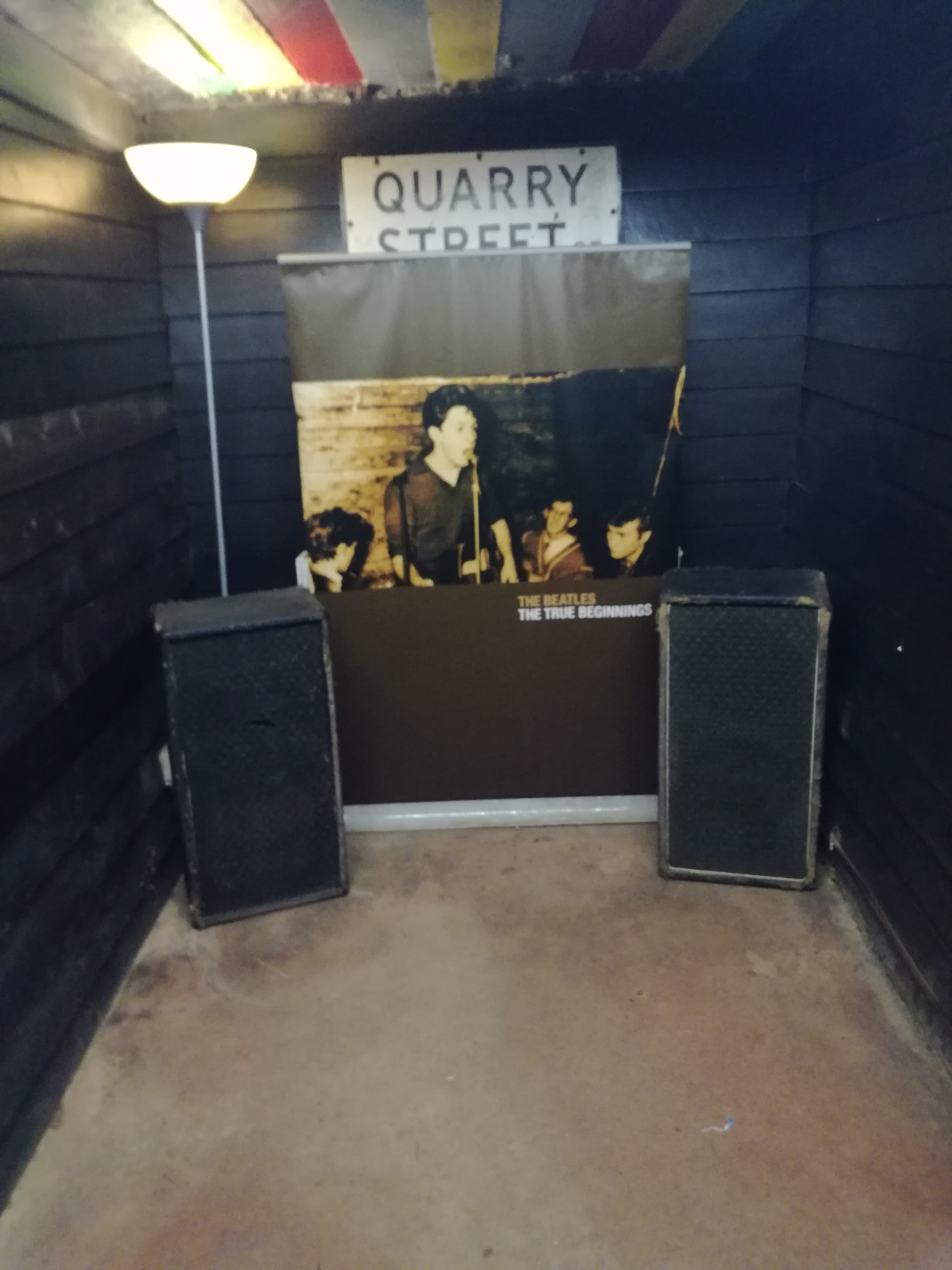 Casbah Coffee Club stage 1959. The cealing bars were painted by the Quarrymen (future Beatles) members.